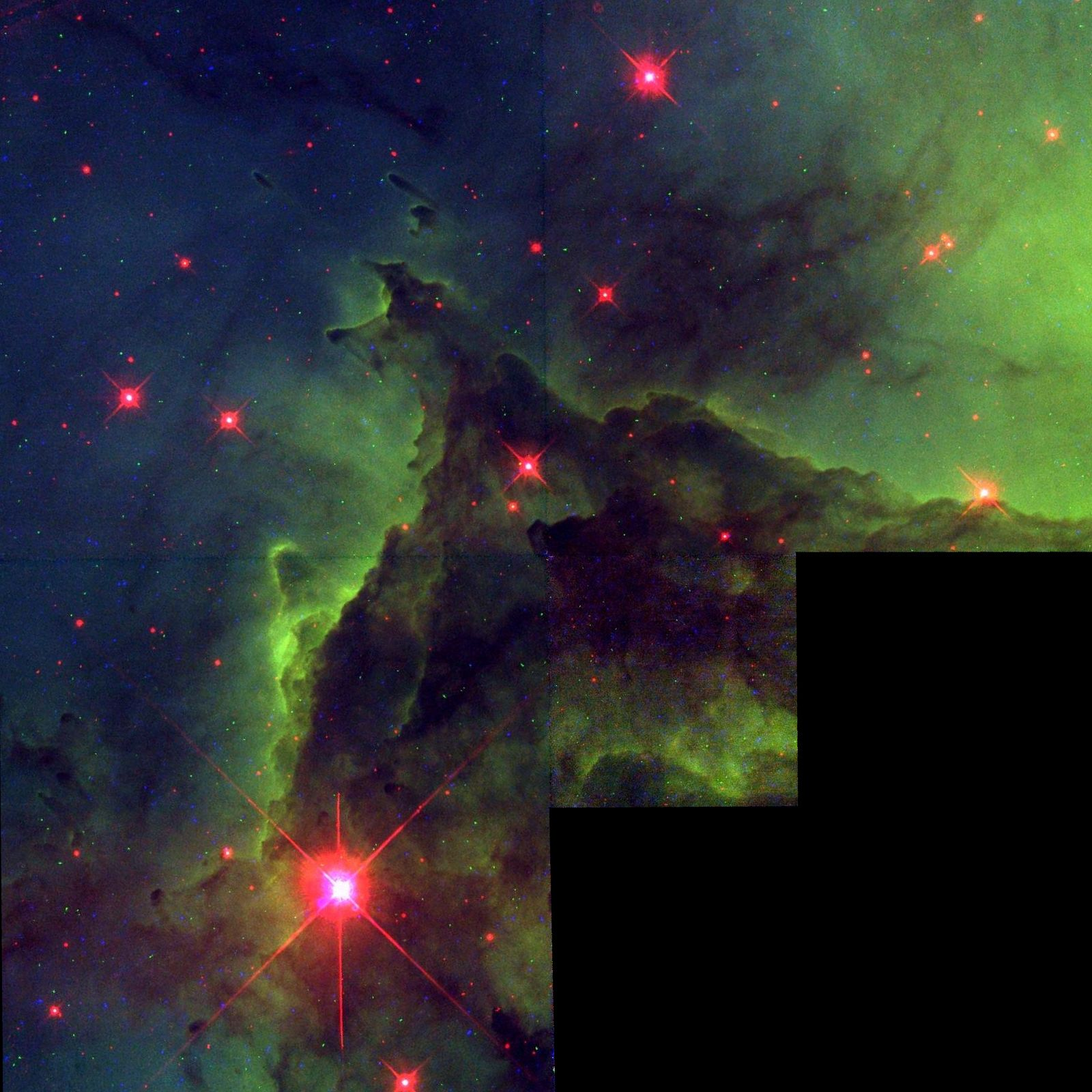 NGC 2174 by Hubble space telescope